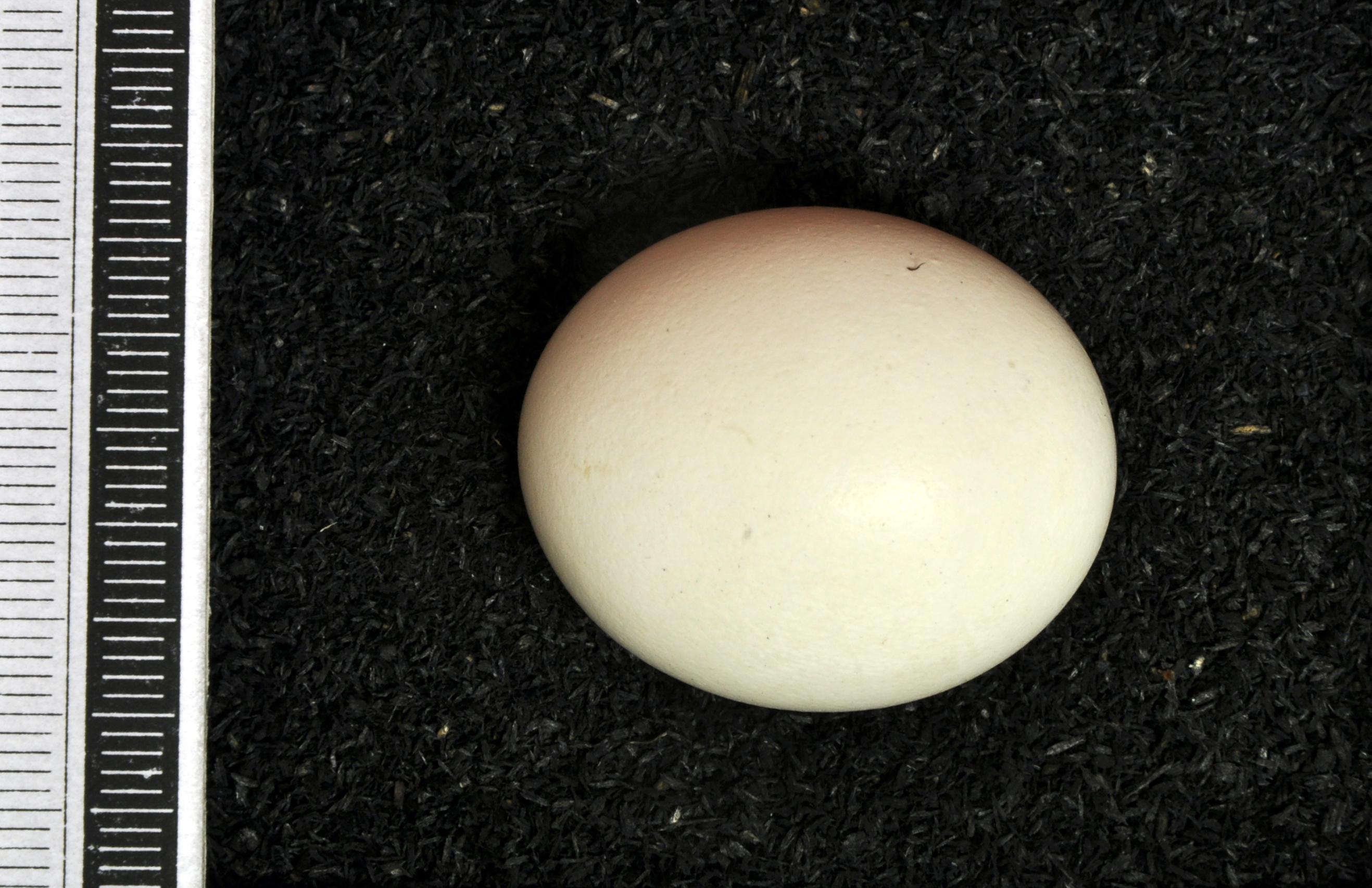 Boreal owl Aegolius funereus , egg, Coll. Museum Wiesbaden